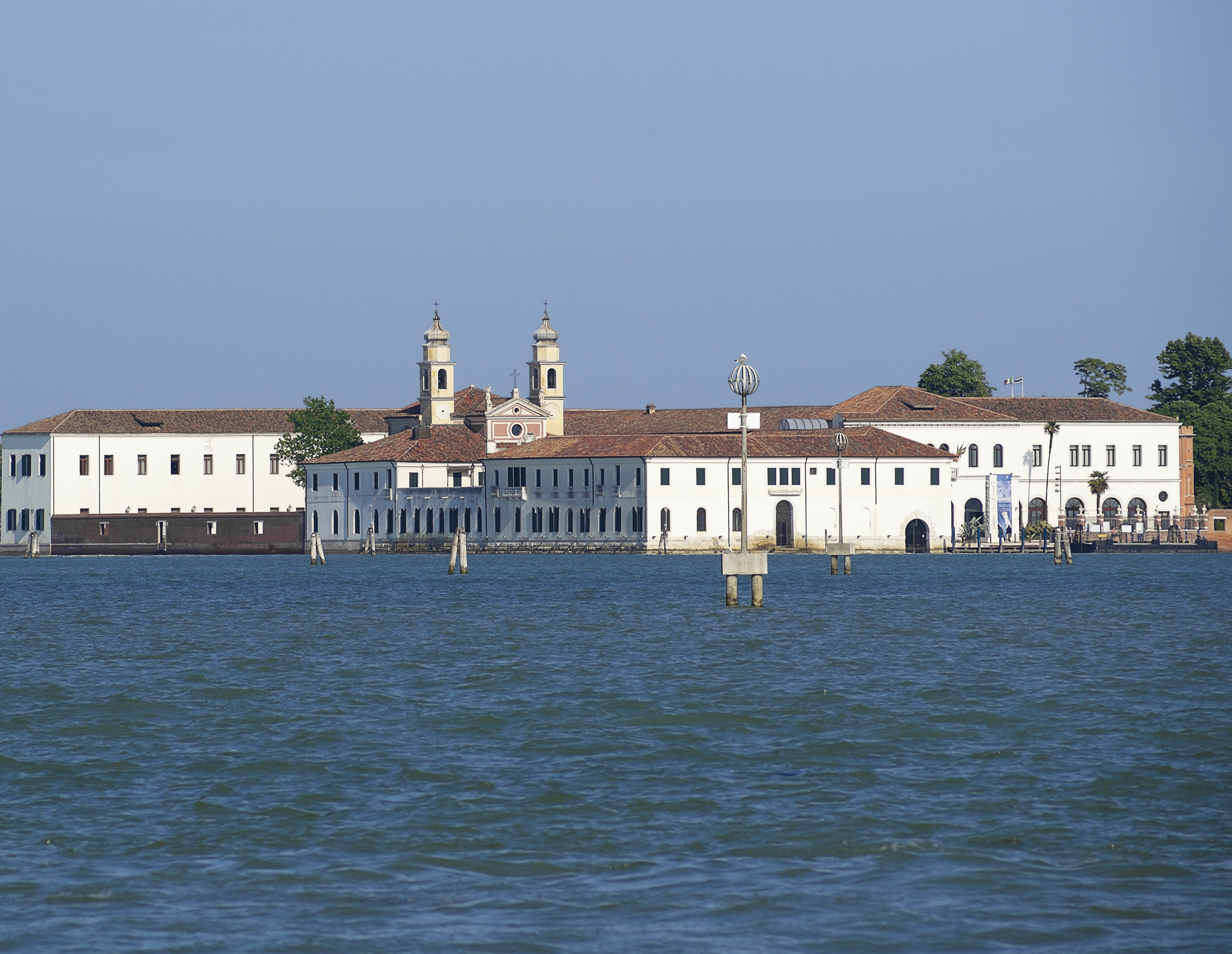 San servolo Island Venice - The church of San Servolo and ancient buildings of the Benedictine